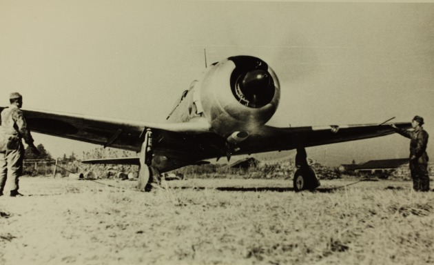 PictionID:6485633 - Catalog:01_00086196 - Title:Nakajima, Ki-44, Shoki 'Devil Queller' Tojo 'John' Army Type 2 Single seat Fighter' - Filename:01_00086196.TIF - Image from the Charles Daniels Photo Collection album "Seversky, Republic and P-47"----PLEASE TAG this image with any information you know about it, so that we can permanently store this data with the original image file in our Digital Asset Management System.----SOURCE INSTITUTION: San Diego Air and Space Museum Archive